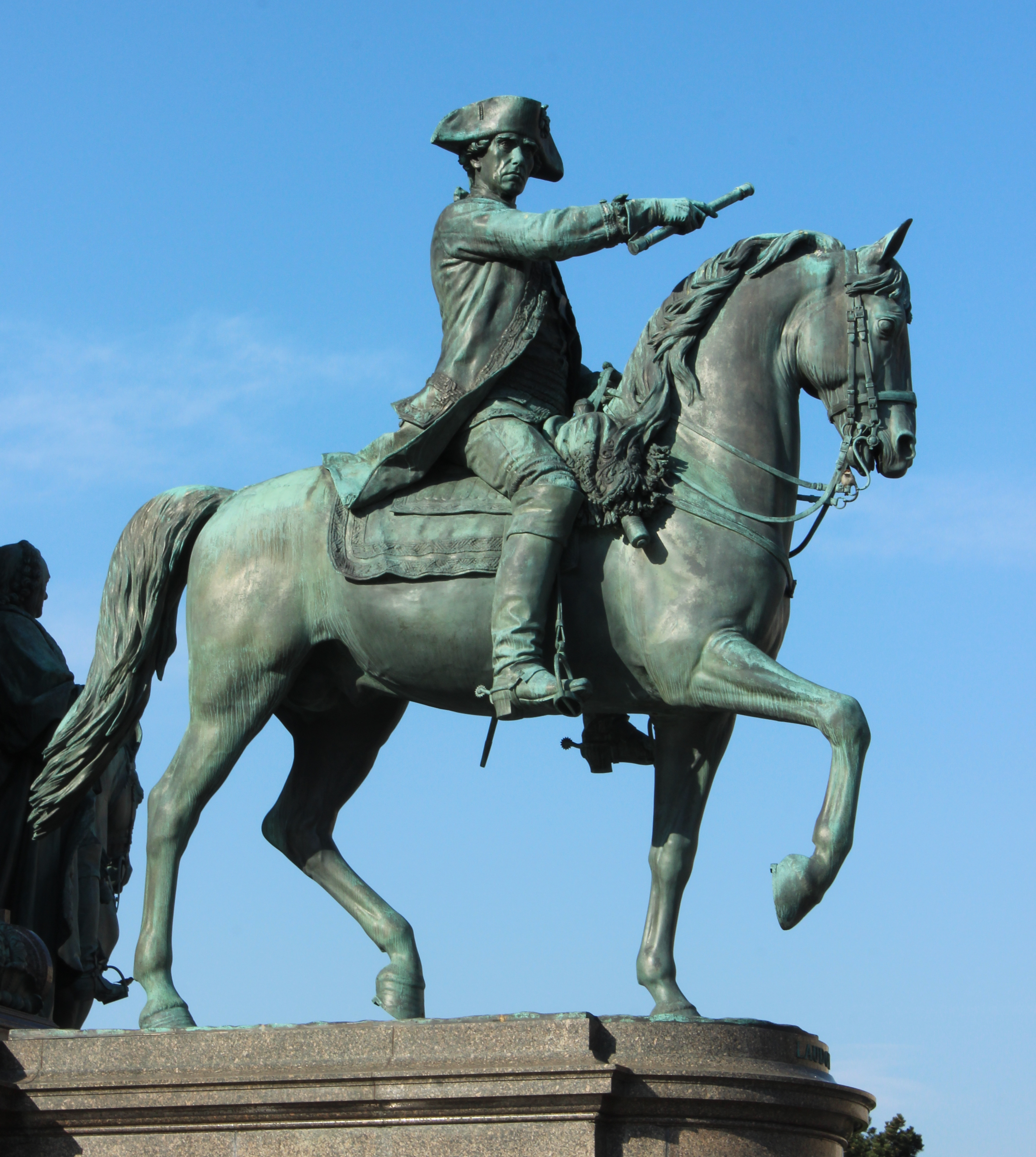 Laudon statue on the Maria Theresia monument with the Kunsthistorische Museum in the background.